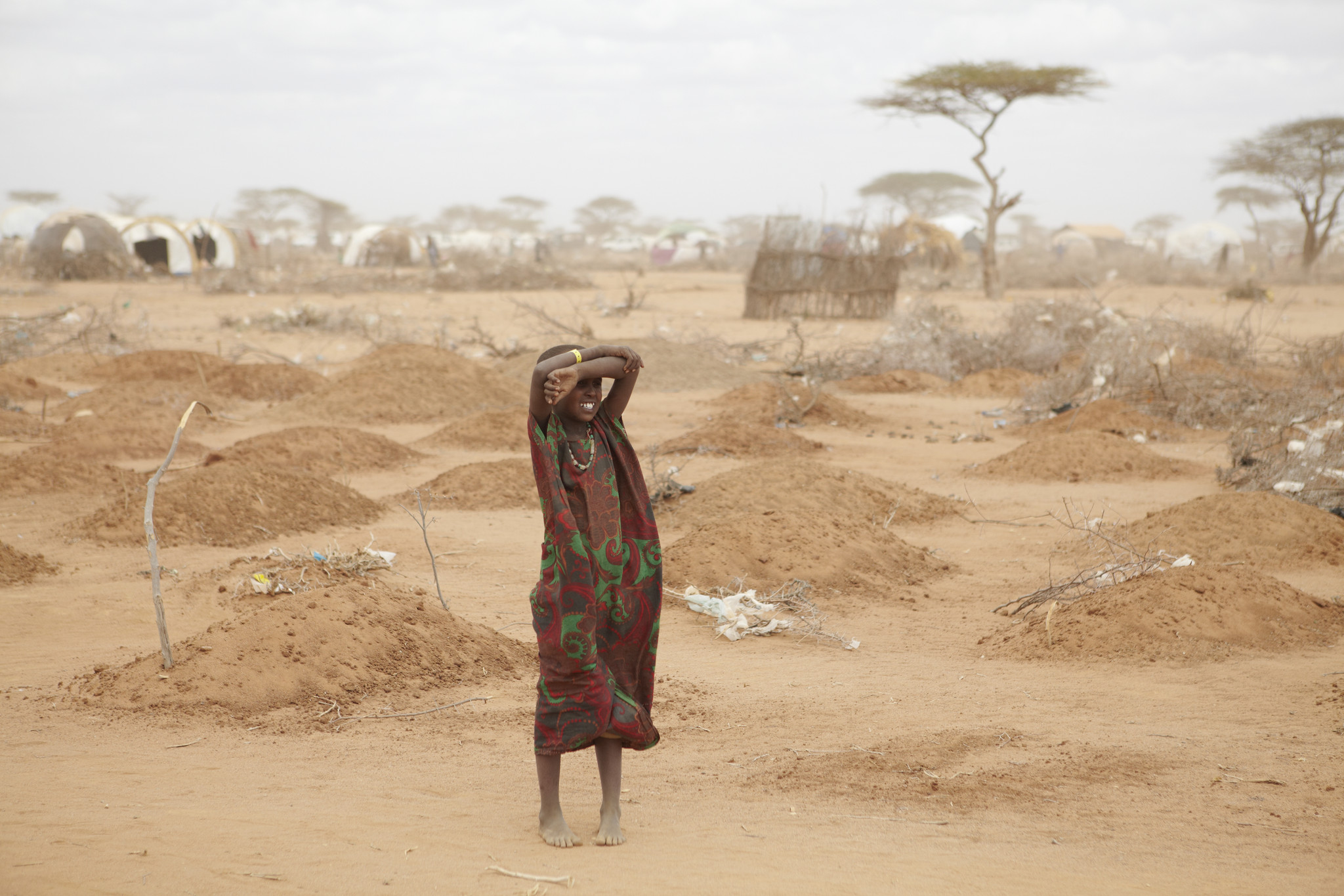 Children have walked for weeks across the desert to get to Dadaab, and many perish on the way. Others have died shortly after arrival. On the edge of the camp, a young girl stands amid the freshly made graves of 70 children, many of whom died of malnutrition. Photo: Andy Hall/Oxfam.